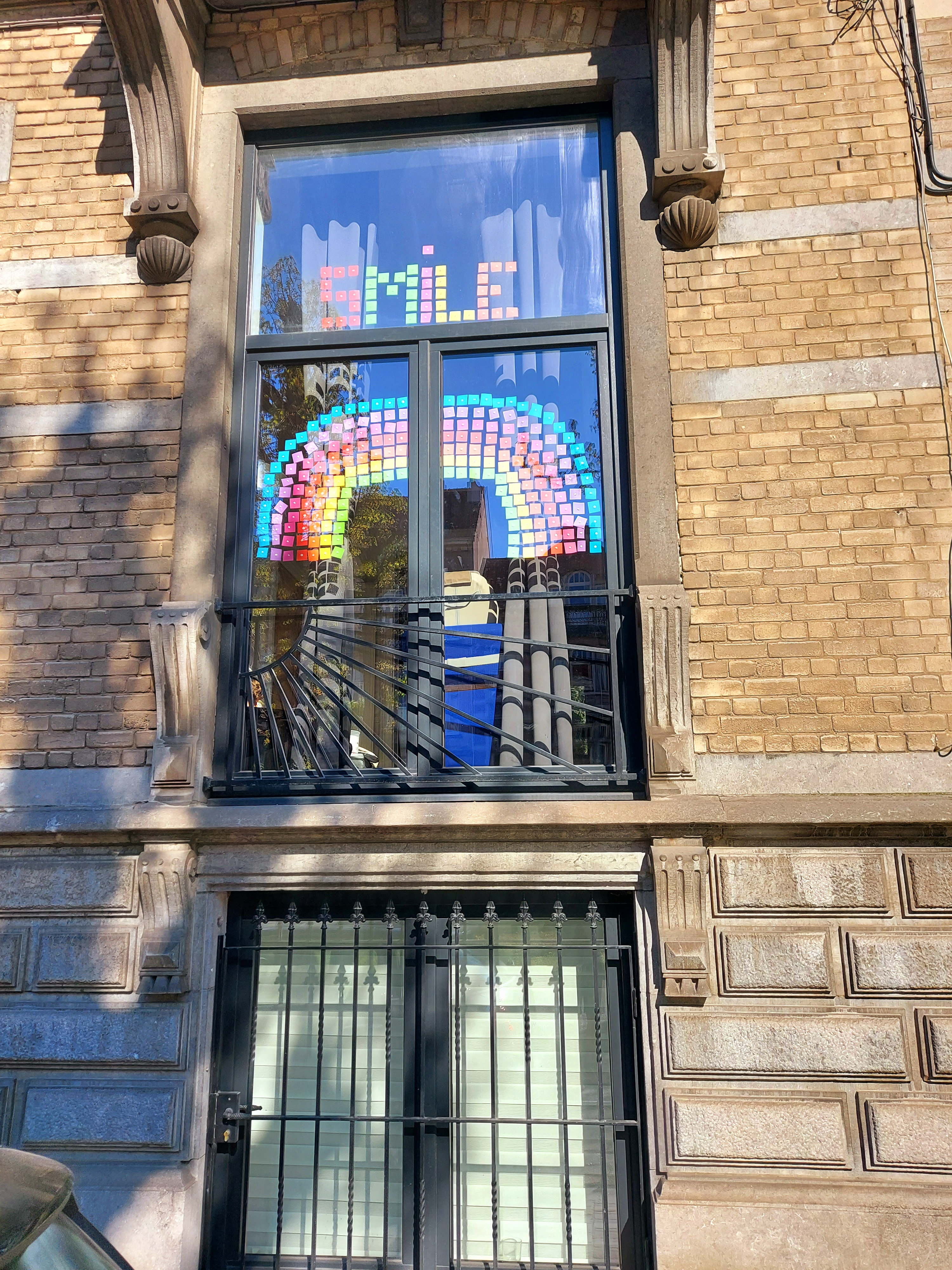 Coronavirus outbreak April 2020: A message of support to the civil society, and to remind people to stay positive